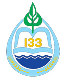 It is the official emblem of Institute of Irrigated Farming NAAS